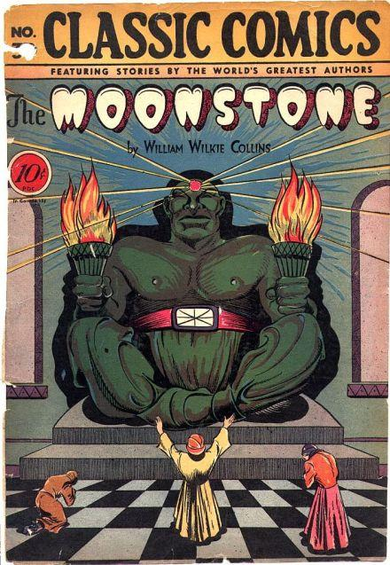 Cover scan of a Classics Comics book